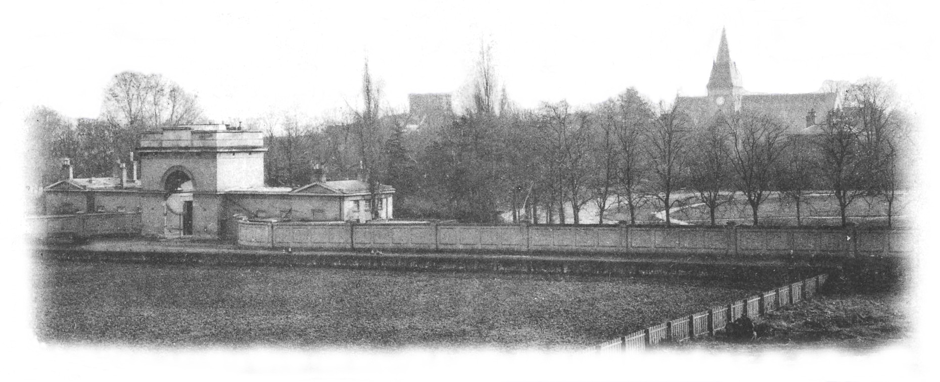 This shows the main gate way to the London County Asylum at Hanwell at the end of the Victorian period c.1890. Appears to have been taken late afternoon, from a position upon the GWR embankment, some 600 ft to the east of the Iron Bridge on the Uxbridge Road (junction of A 4020 and A 4127) The view is looking in the south to south easterly direction. Approx. grid ref TQ145802 The image has been cropped and enhanced. It was from a post card's (Chester Vaughan series) with a postmark stamped 9 pm May 16th 1904. These post cards were very popular in England around this time. If posted locally in the morning they would arrive the same day. From the hackneyed phrases and banal messages written on the other side they seem to have been the e-mail of their day. Source: I scanned it from post card, then cropped and enhanced image.